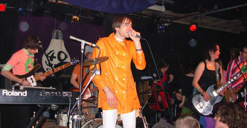 Rivers Langley, Transferred from the English Wikipedia.